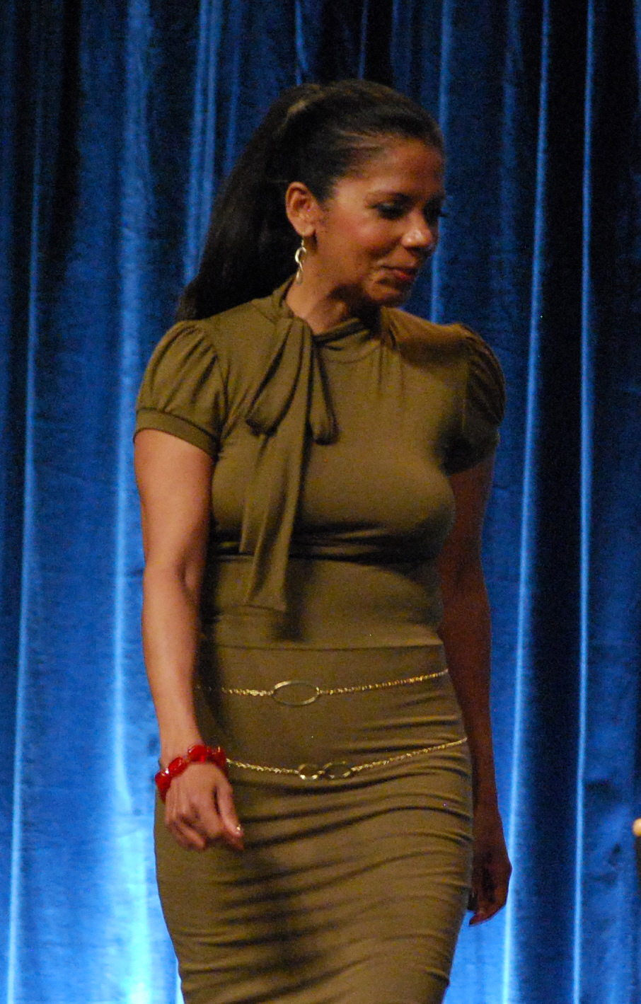 Penny Johnson Jerald at Paleyfest 2012